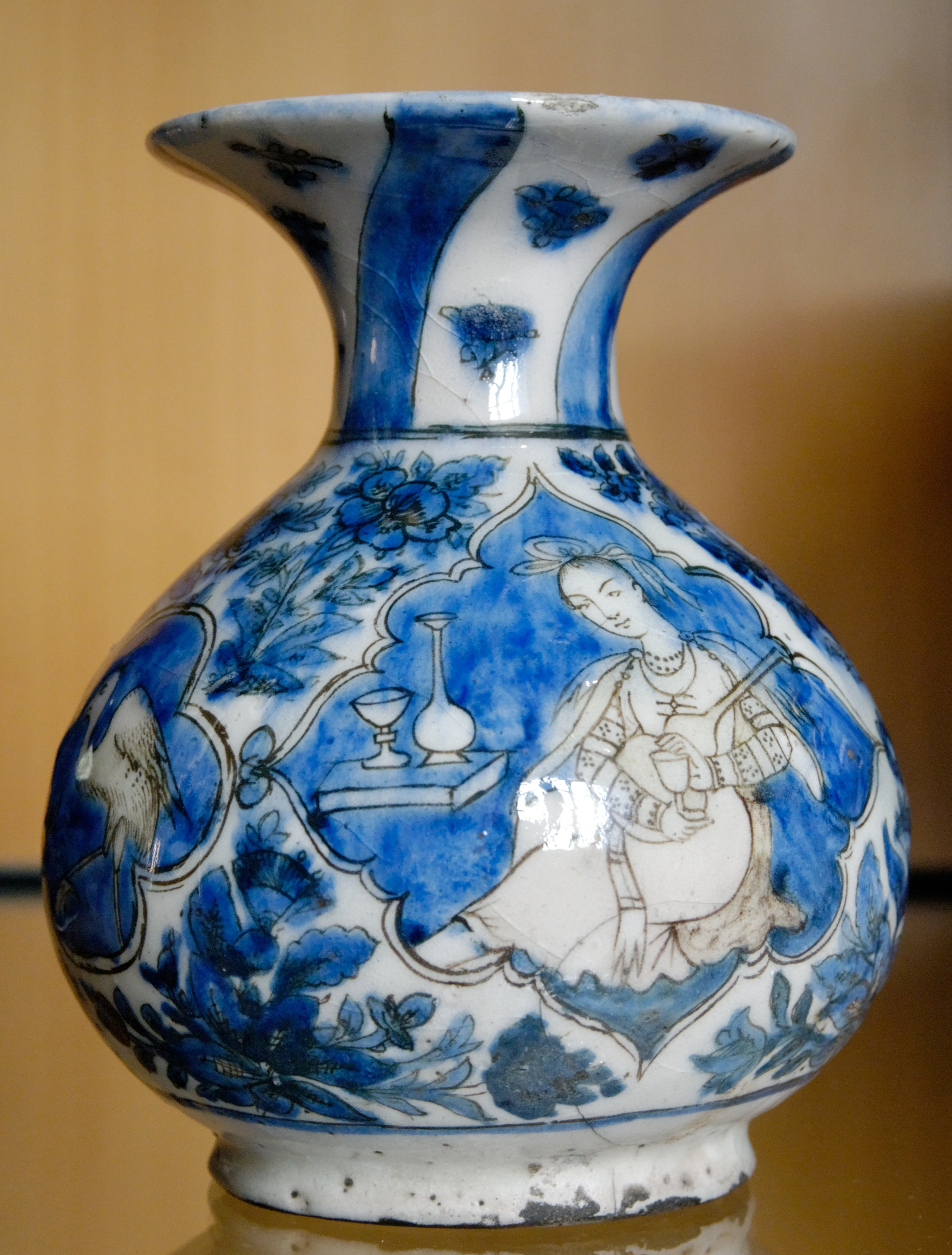 Vase with a woman drinking. Earthenware with polychrome decoration under transparent glaze, Safavid art, second half of the 17th century.